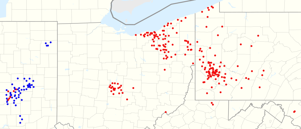 Geographic footprint of GetGo locations, as of 1 January 2020. (Former Ricker's locations in red.)